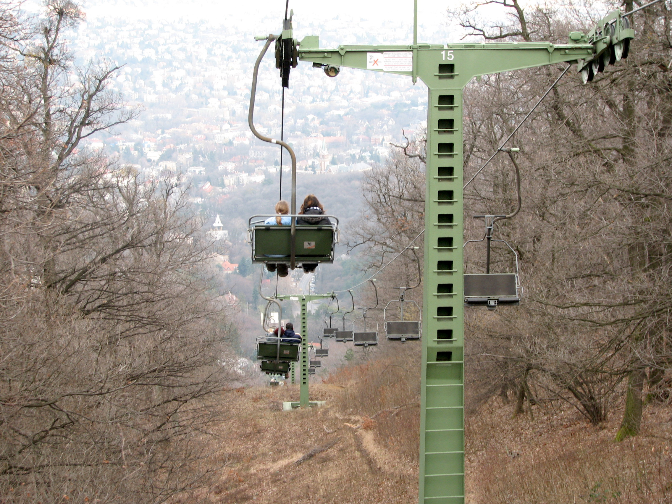 Chairlift (Libegő) in Budapest